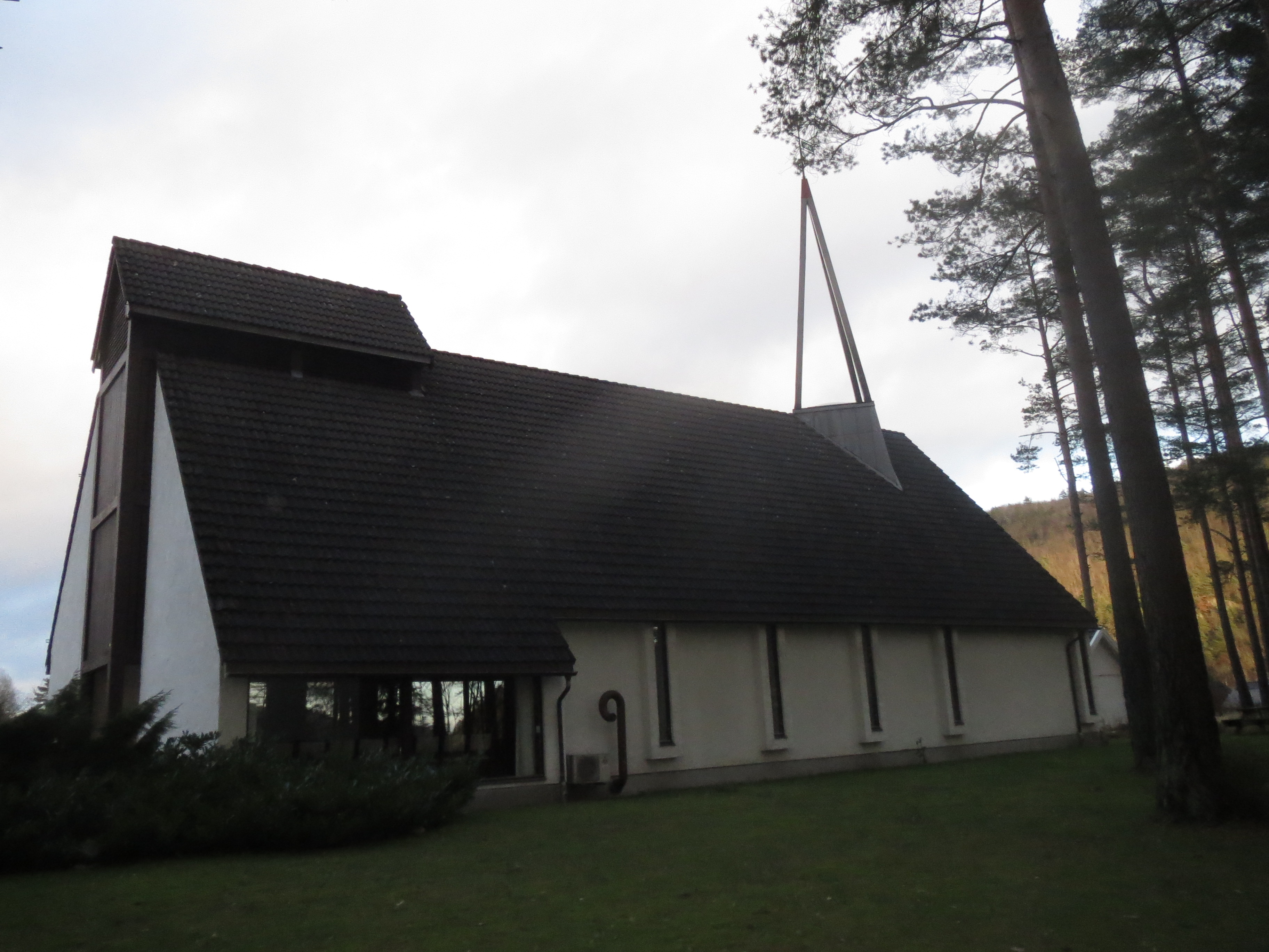 Torridal Chuch from south